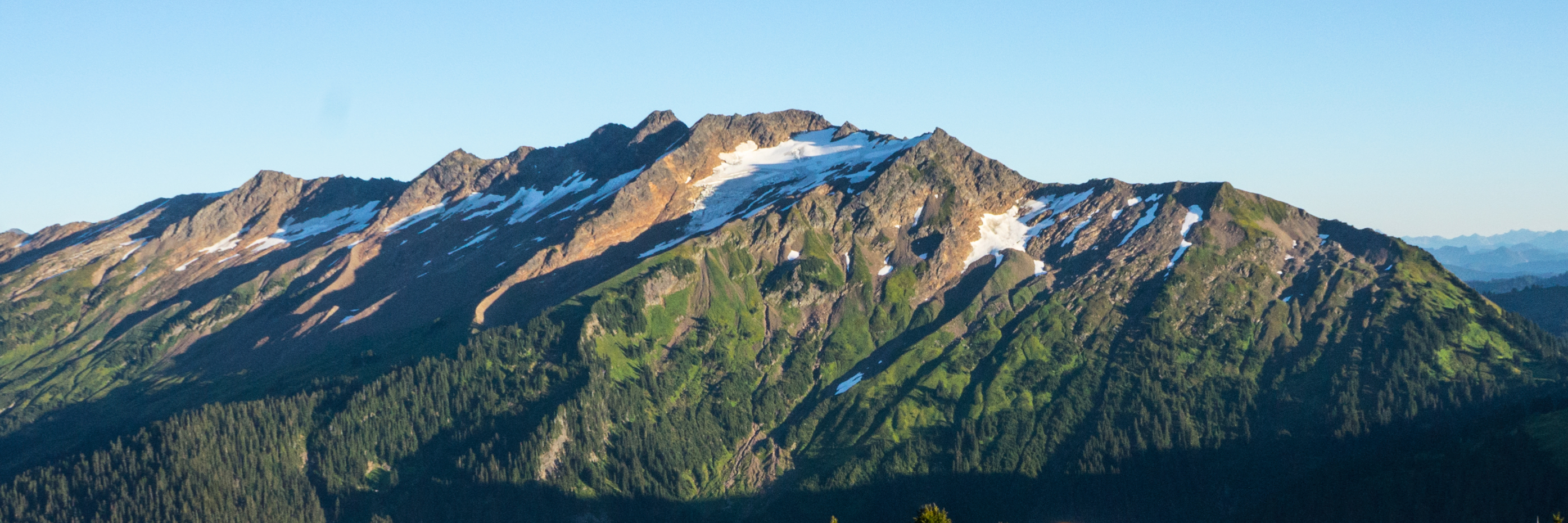 Indian Head Peak seen from Foam Creek trail. Glacier Peak Wilderness of Washington state.